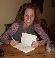 (Canadian Fiction Writer and novelist)